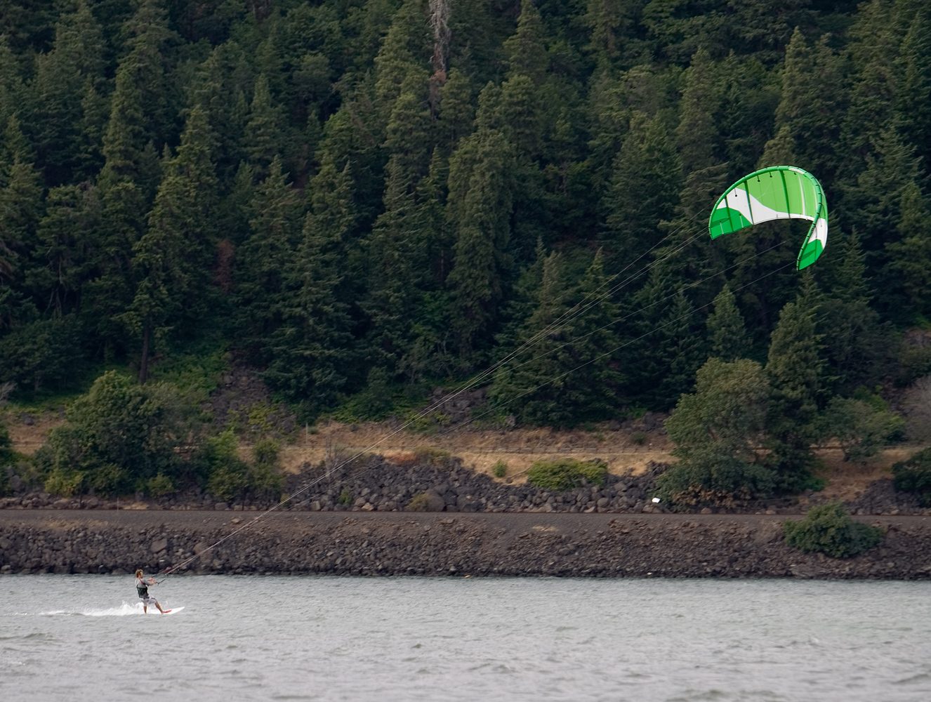 A man kitesurfing on the Columbia River Gorge in Hood River, Oregon.